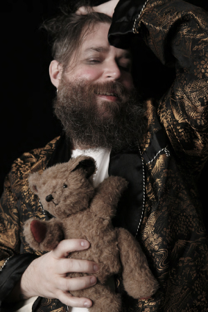 LD Beghtol and friend